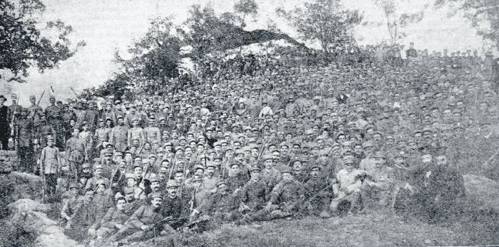 Epirote Forces 'Sacred Bands' in Koryca